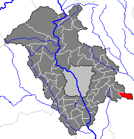 This map shows the area of the Gemeinde (municipality) Sankt Marein bei Graz in the Bezirk (district) Graz-Umgebung, Styria, Austria.